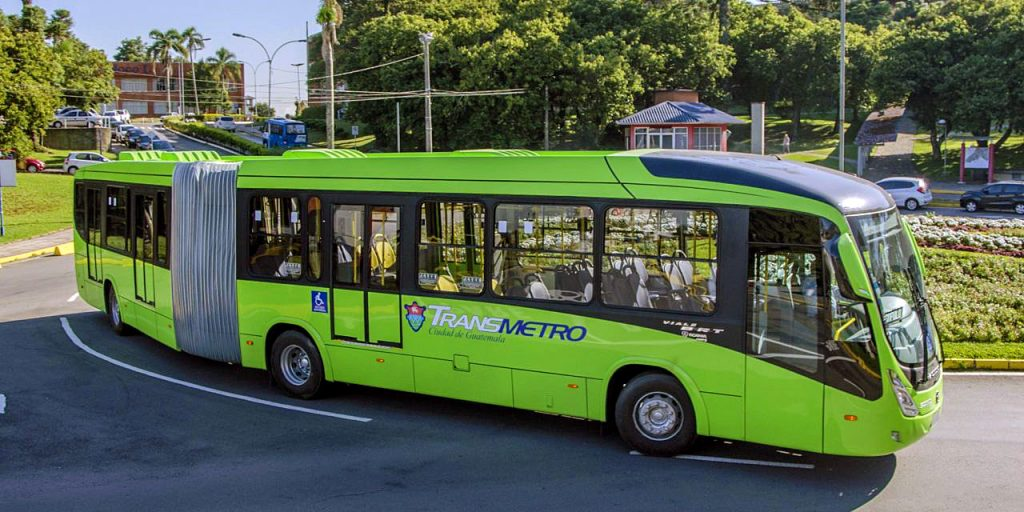 BRT line 13 in GTM city